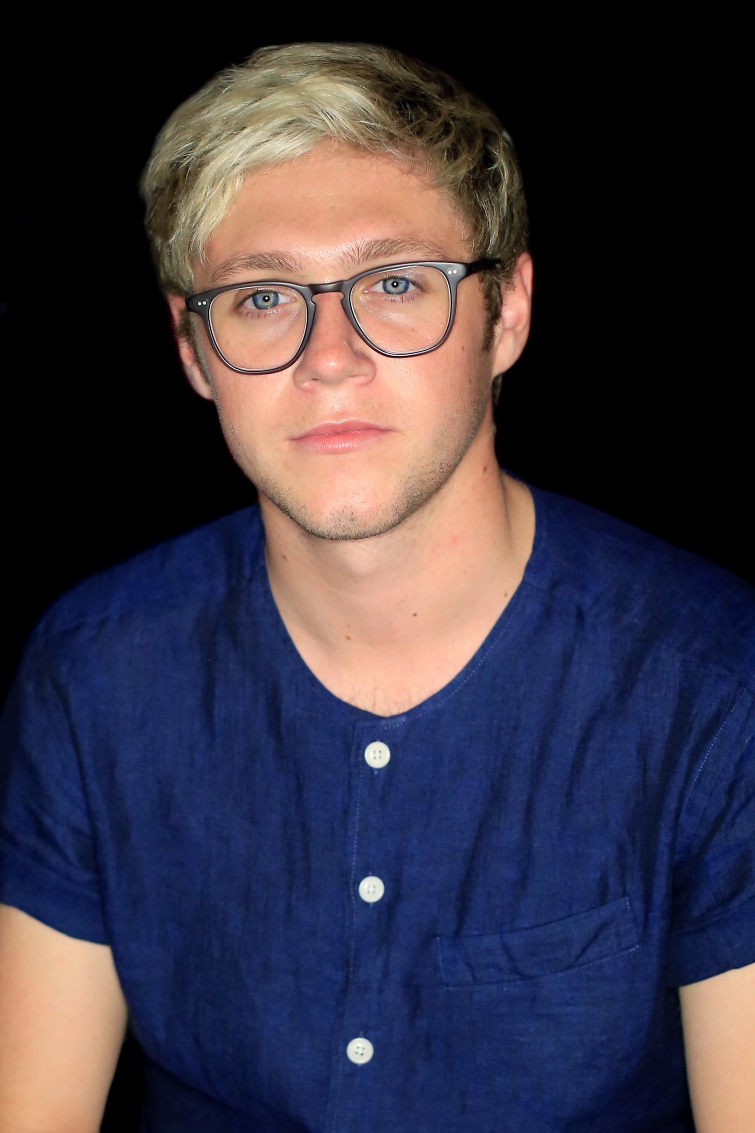 Niall Horan Portrait